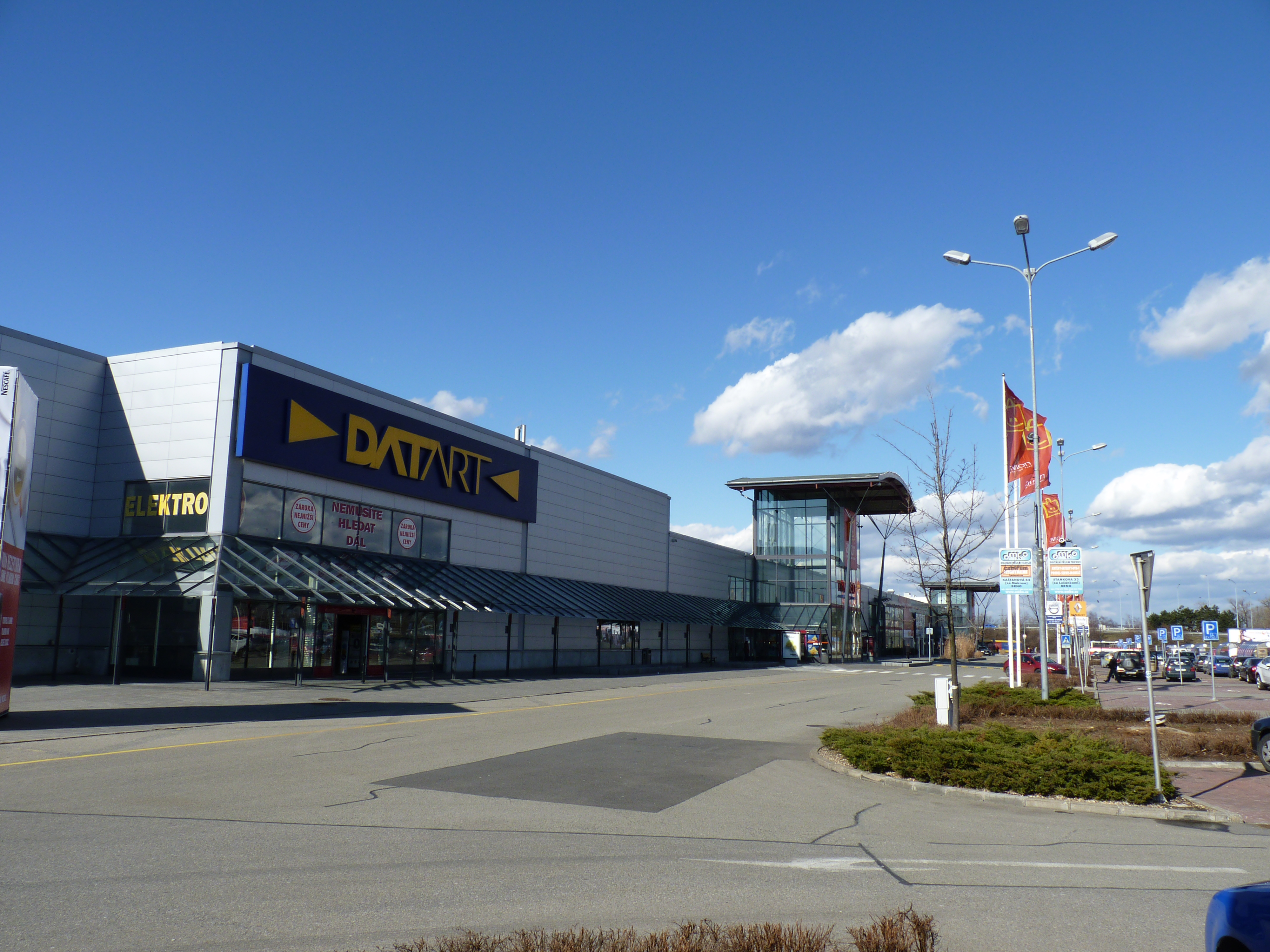 Avion Shopping Park Brno in Brno-South, South Moravian Region, Czech Republic